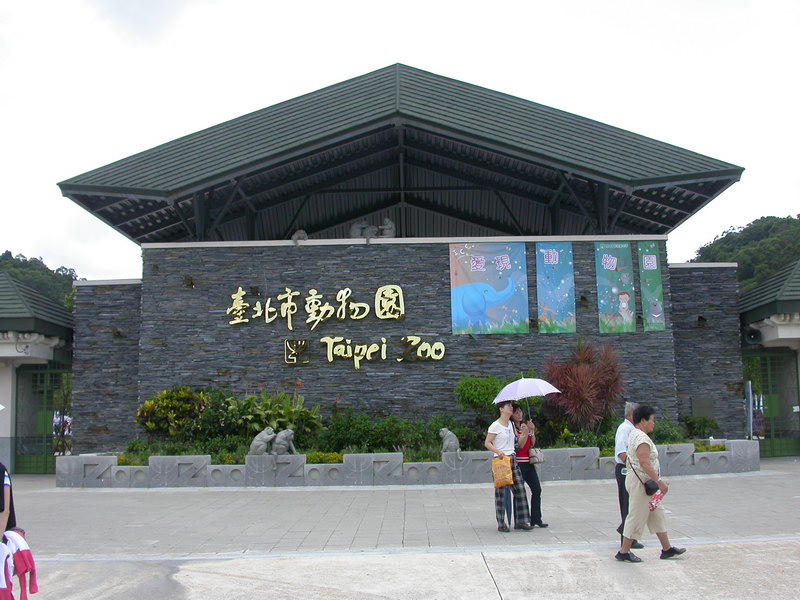 New gate of taipei zoo